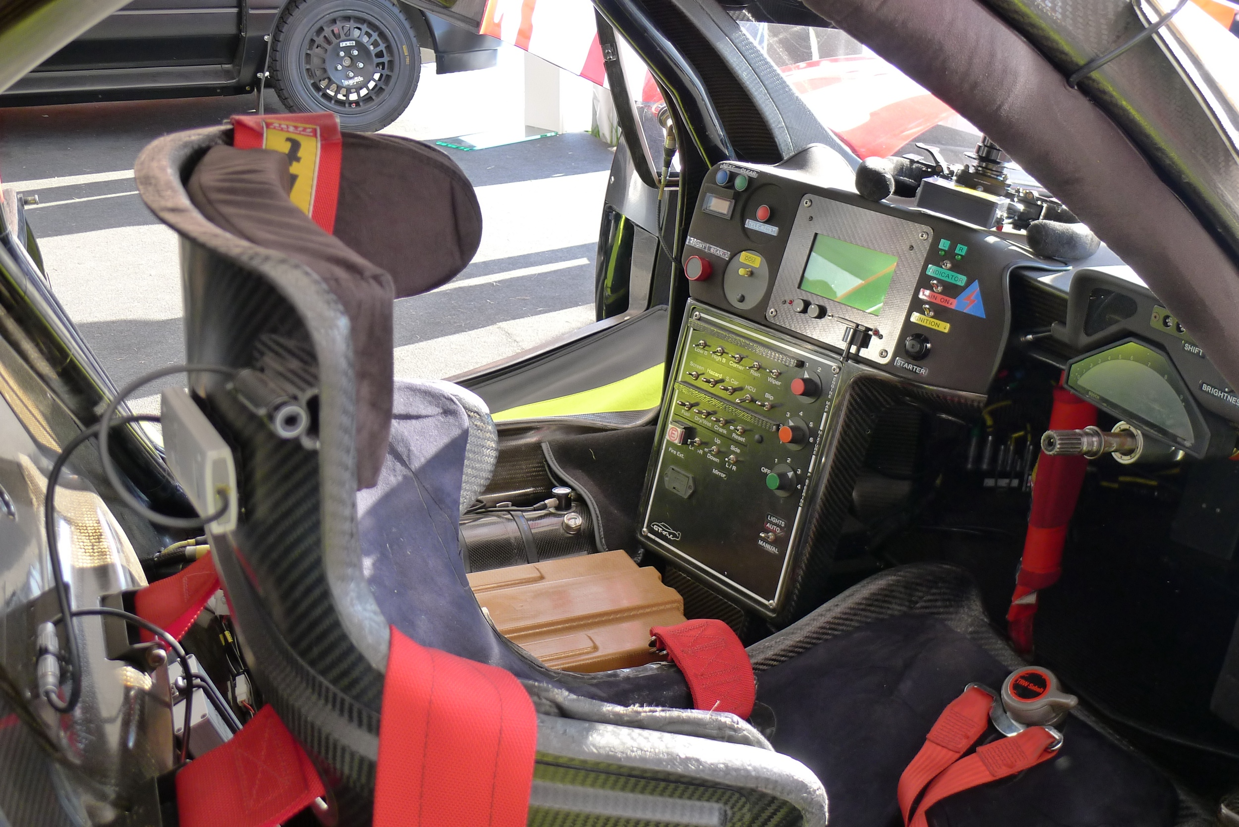 Toyota TS020 GT-ONE